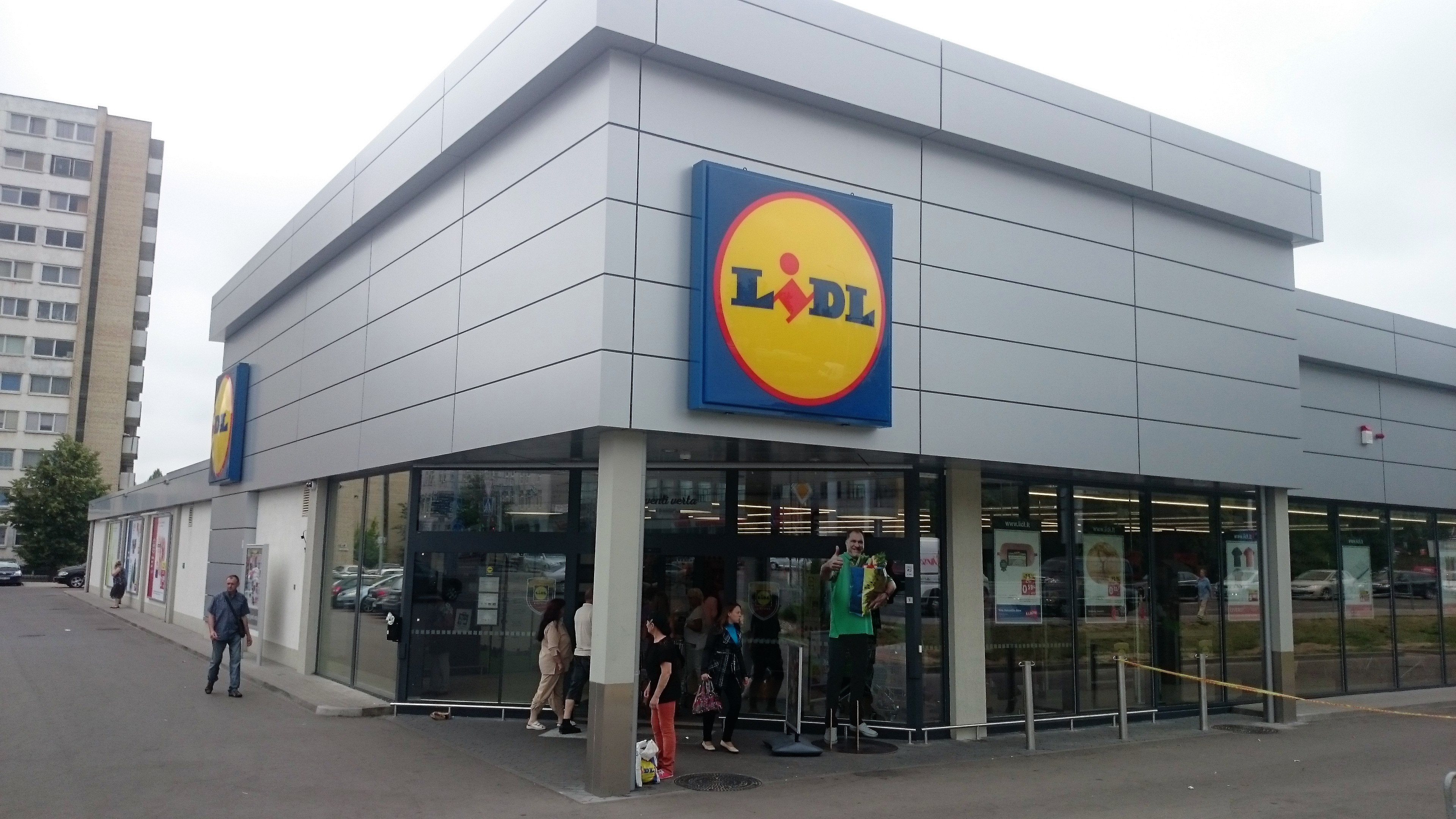 LIDL ŠNIPIŠKĖS